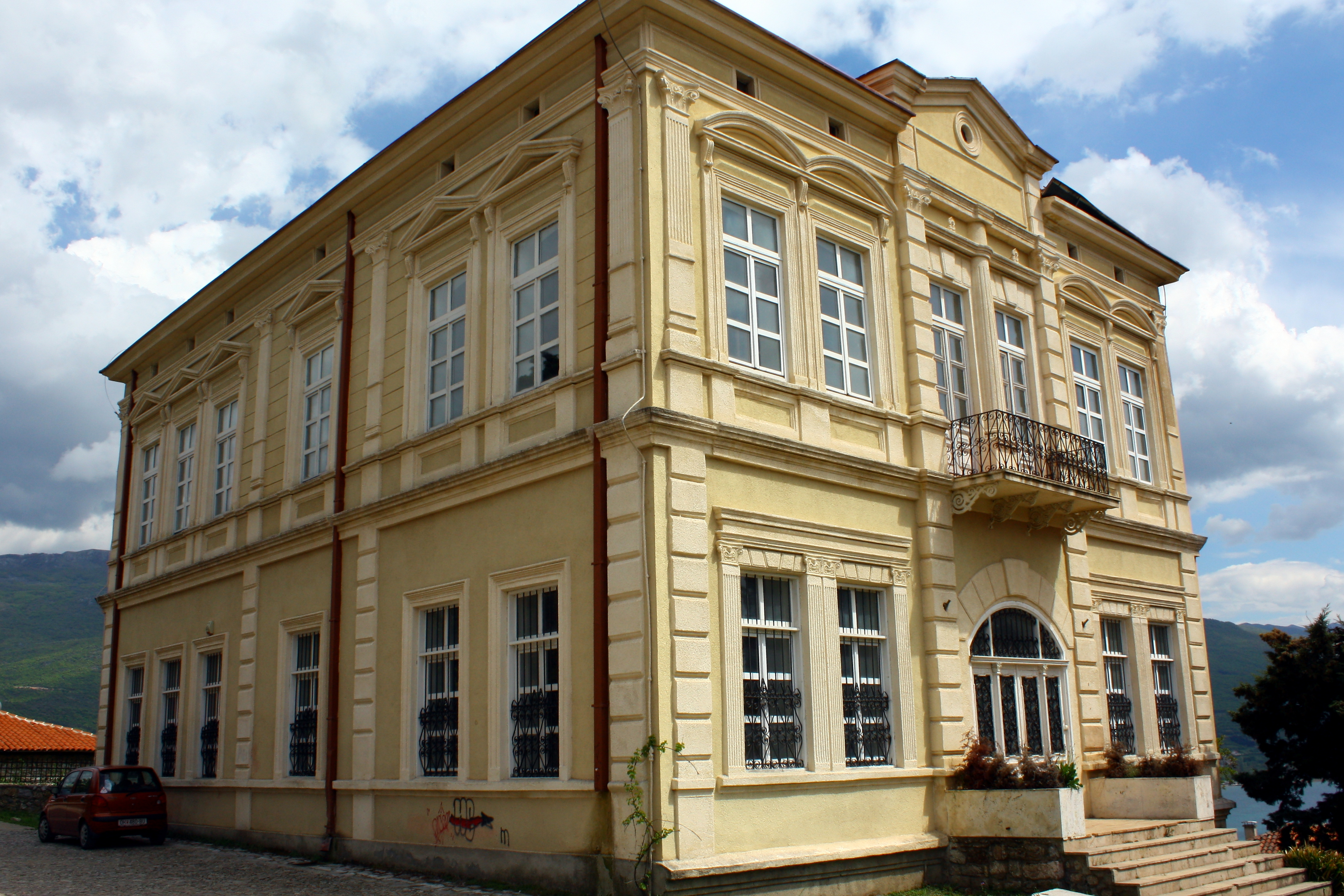 Old Saint Clement's school in Ohrid, Macedonia